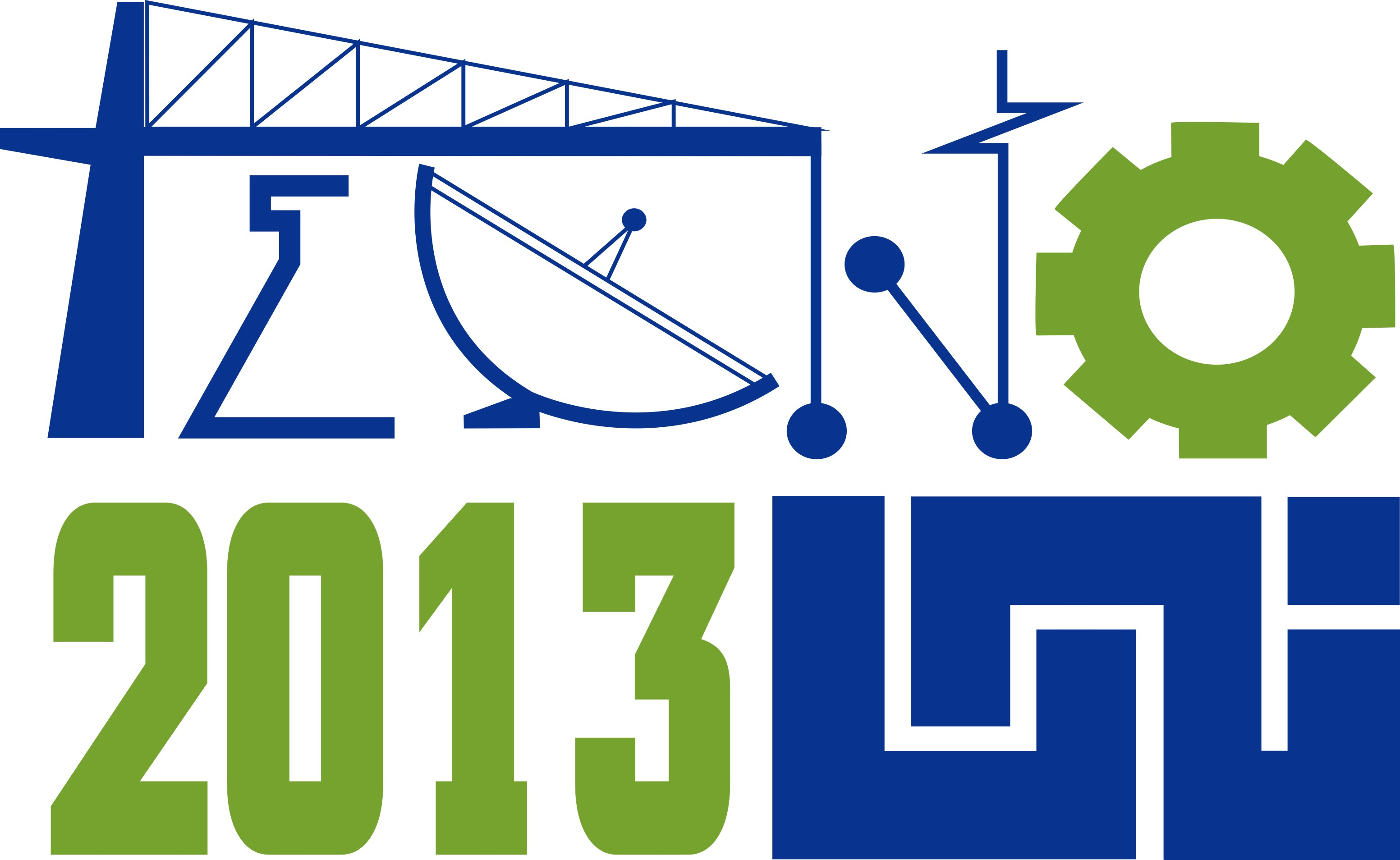 Logotipo de la IX Edición de la Feria Tecnológica Tecno UNI 2013